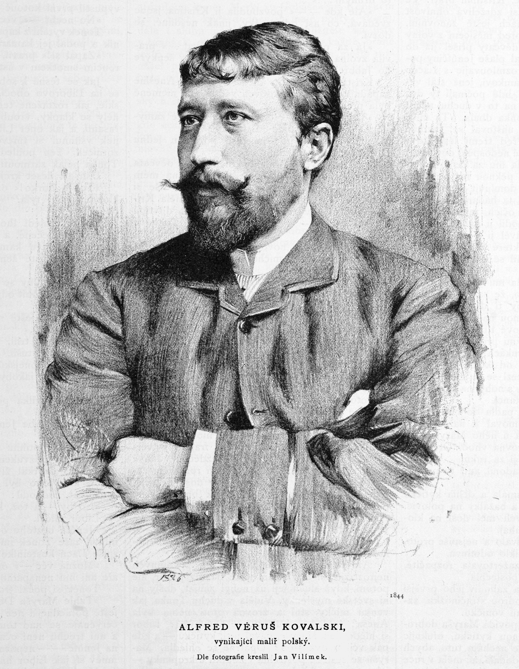 Portrait of Alfred Kowalski-Wierusz (1849 - 1915), Polish painter